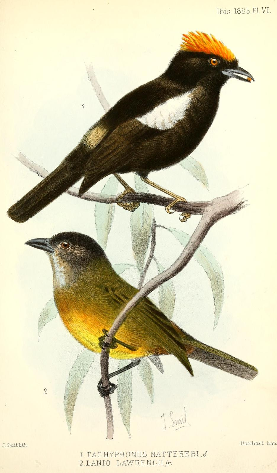 Tachyphonus nattereri = Tachyphonus cristatus Lanio lawrencii (bird name has changed, please help retrieve the current one) According bibliography this is a young specimen of Tachyphonus luctuosus--Hector Bottai (talk) 15:50, 9 August 2014 (UTC)